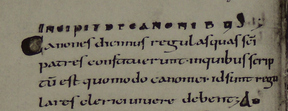 Detail of folio 127v of the manuscript London, Cotton Nero A.i.jpeg